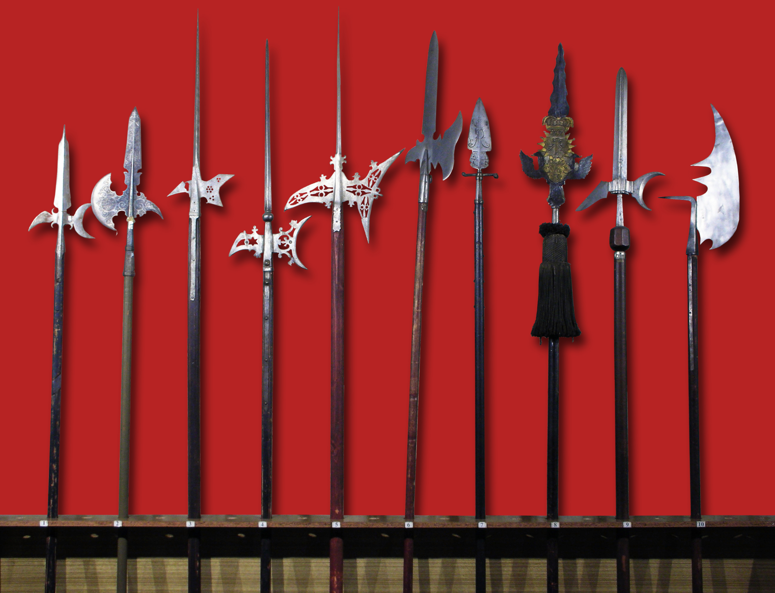 Helberds in "Arsenal" Museum in Lviv (Ukraine).